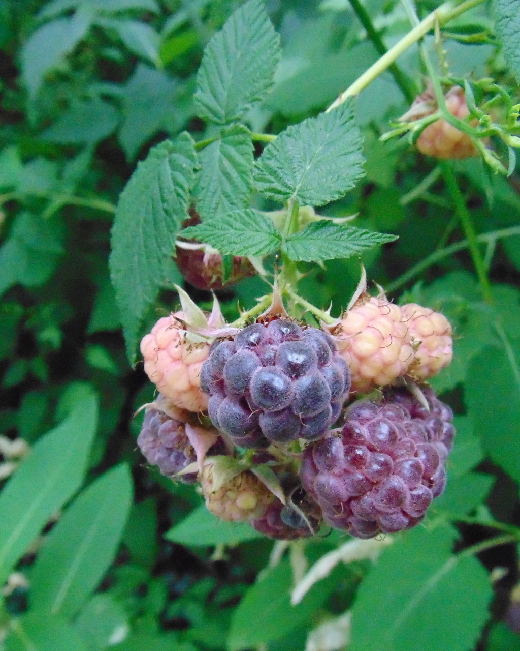 A purple raspberry cultivar.